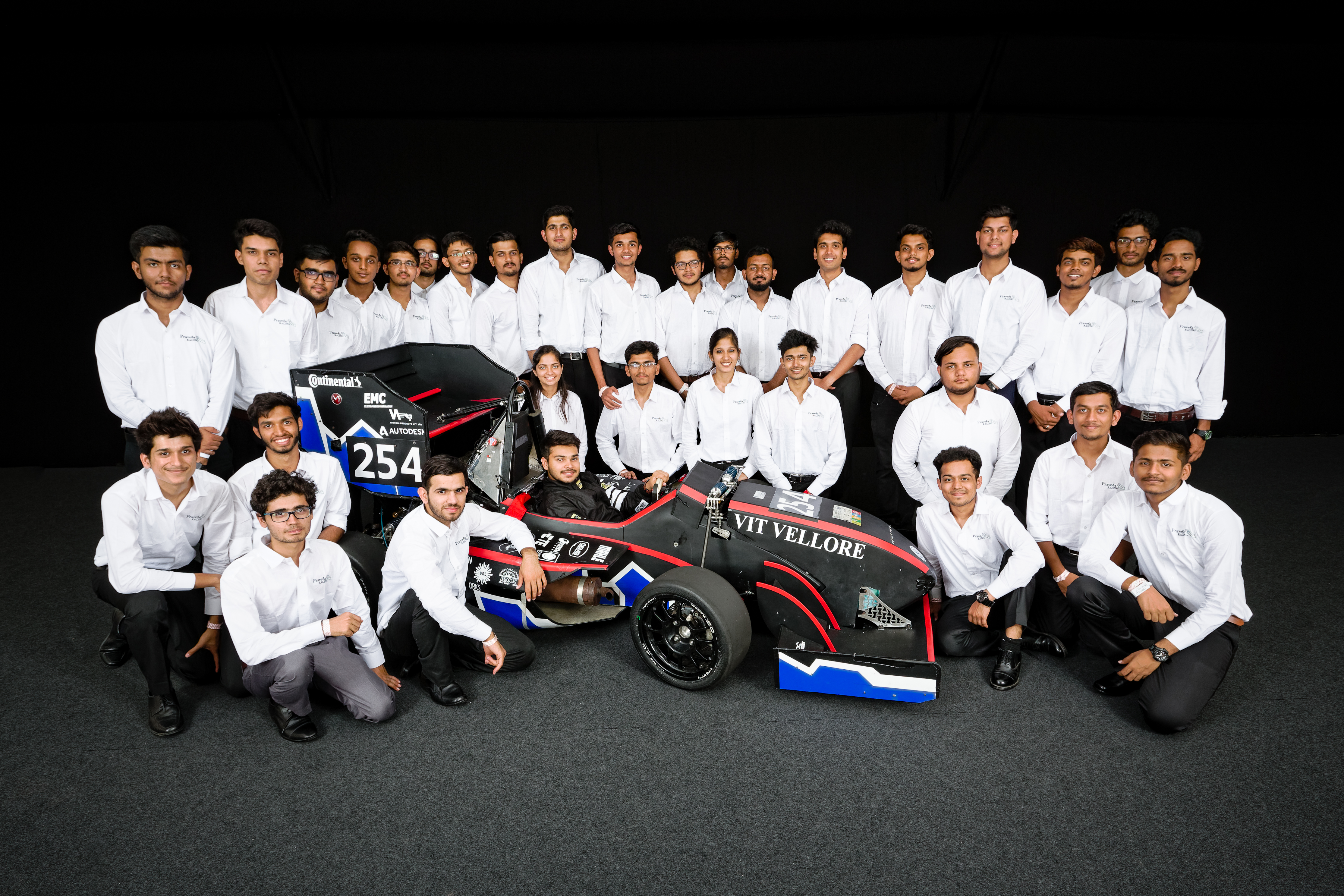 PRV19 Team Photo during FSG19